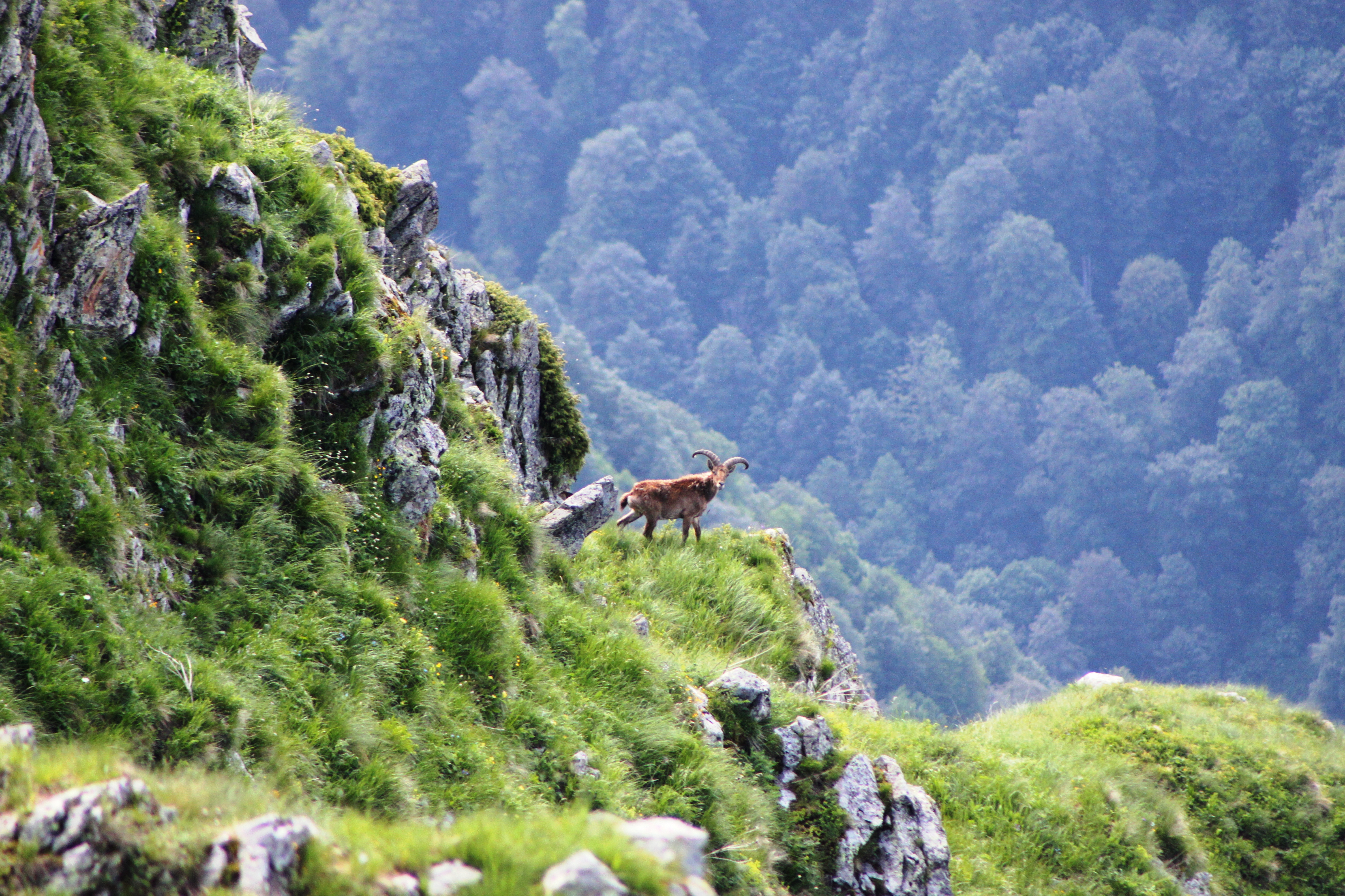 East caucasian Tur - Lagodekhi National park